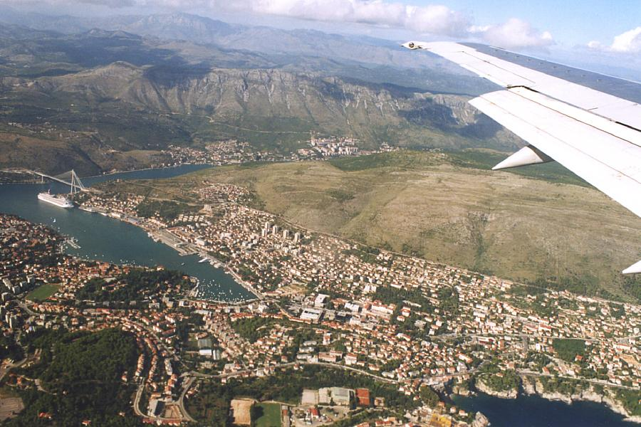 Modern part of Dubrovnik, Croatia. Airphoto.